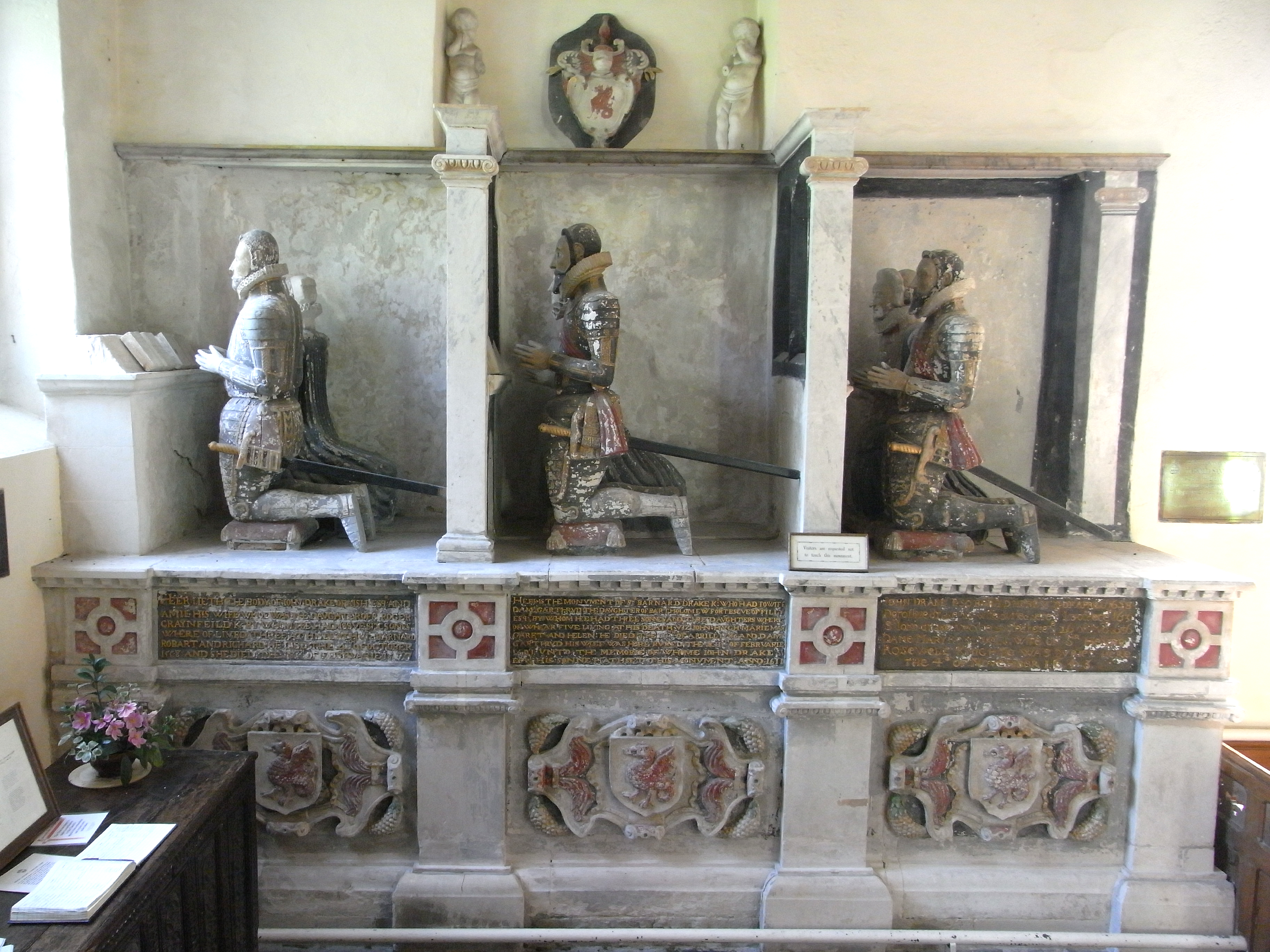 Monument to the Drake family of Ash in the parish of Musbury, Devon. South aisle of Musbury Church. It depicts the following persons: left: John VI Drake (d.1558); centre: Sir Barnard Drake (d.1586), his son; right: John VII Drake (d.1628), son of Sir Barnard. Also shown are the arms of Drake: Argent, a wyvern wings displayed and tail nowed gules